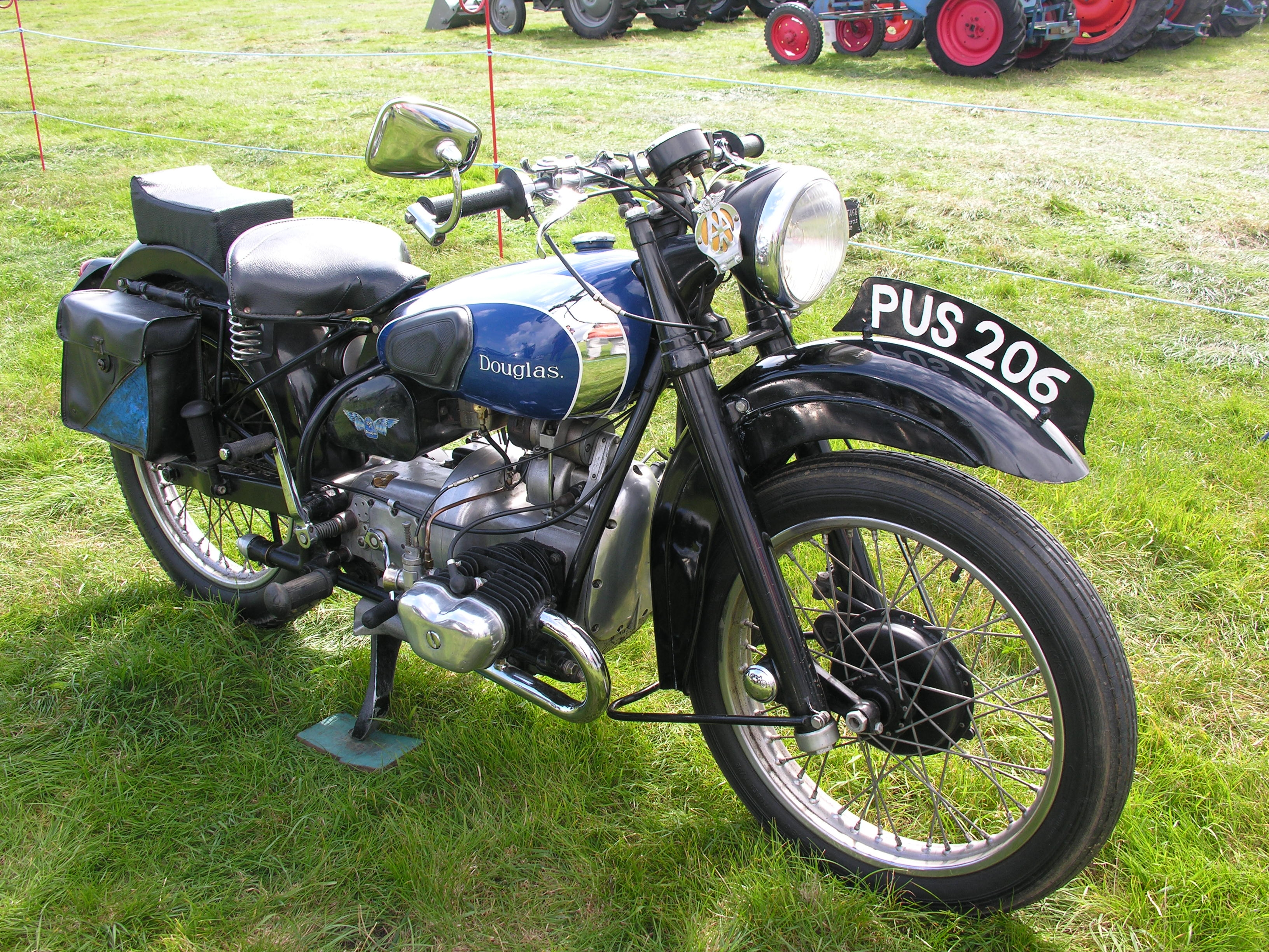 Douglas 350cc